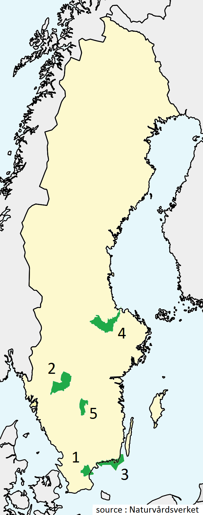 Map of Biosphere Reserves of Sweden 1. Kristianstad Vattenrike, 2005 2. Lake Vänern Archipelago, 2010 3. Blekinge Archipelago, 2011 4. Nedre Dalälven River Landscape, 2011 5. East Vättern Scarp Landscape, 2012